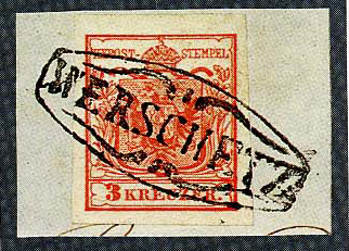 Cancellation of Werschetz (Serbia), Banat, Mueller type RfOd (70x8 points). Sold 1100 Swiss Francs in June 1981 by Corinphila